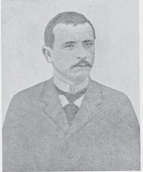 Bogdan Radenkovic